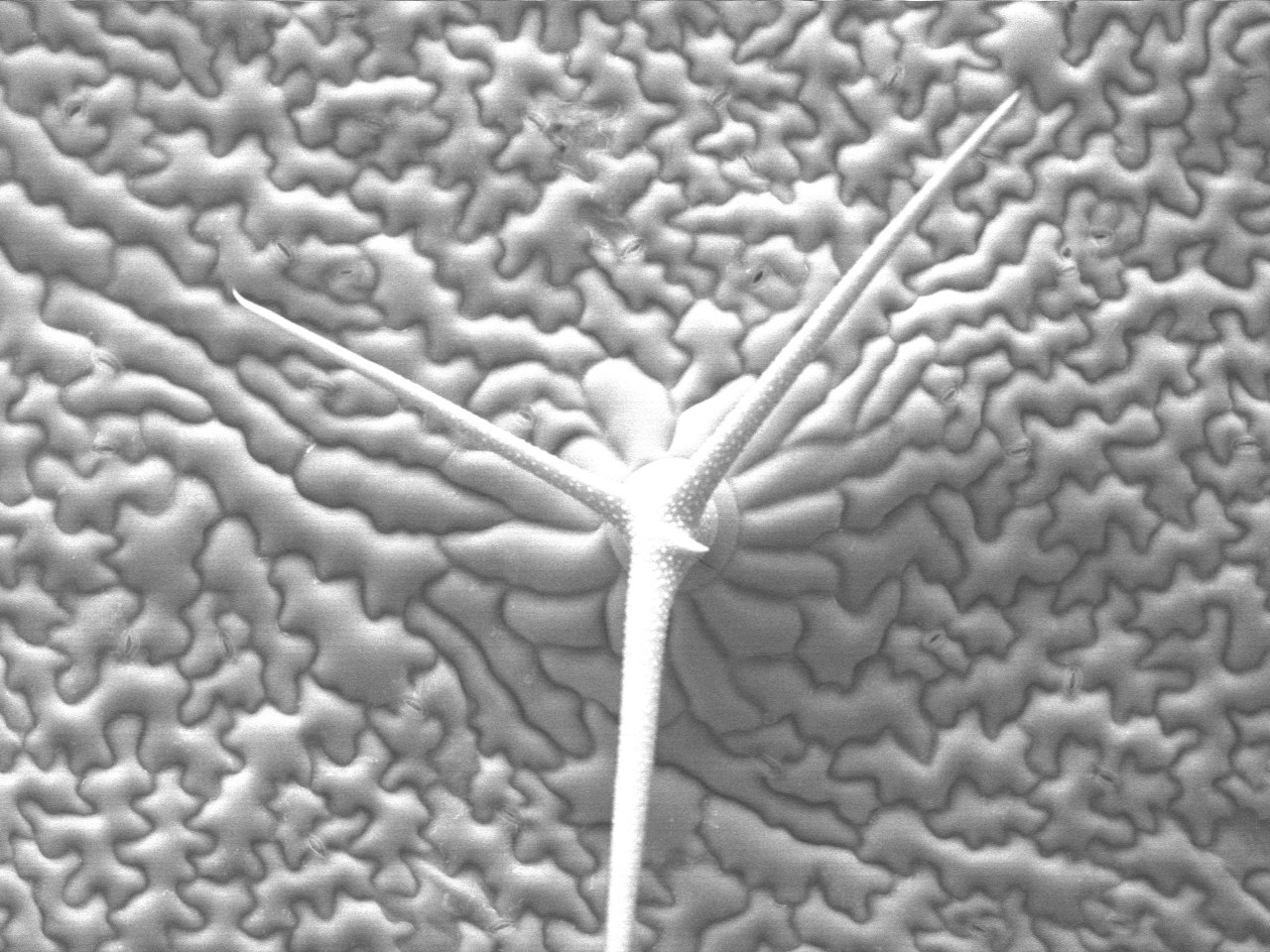 Epiderm of a leaf of Arabidopsis thaliana seen by cryo-scanning electron microscopy. Remark the beautiful trichome.